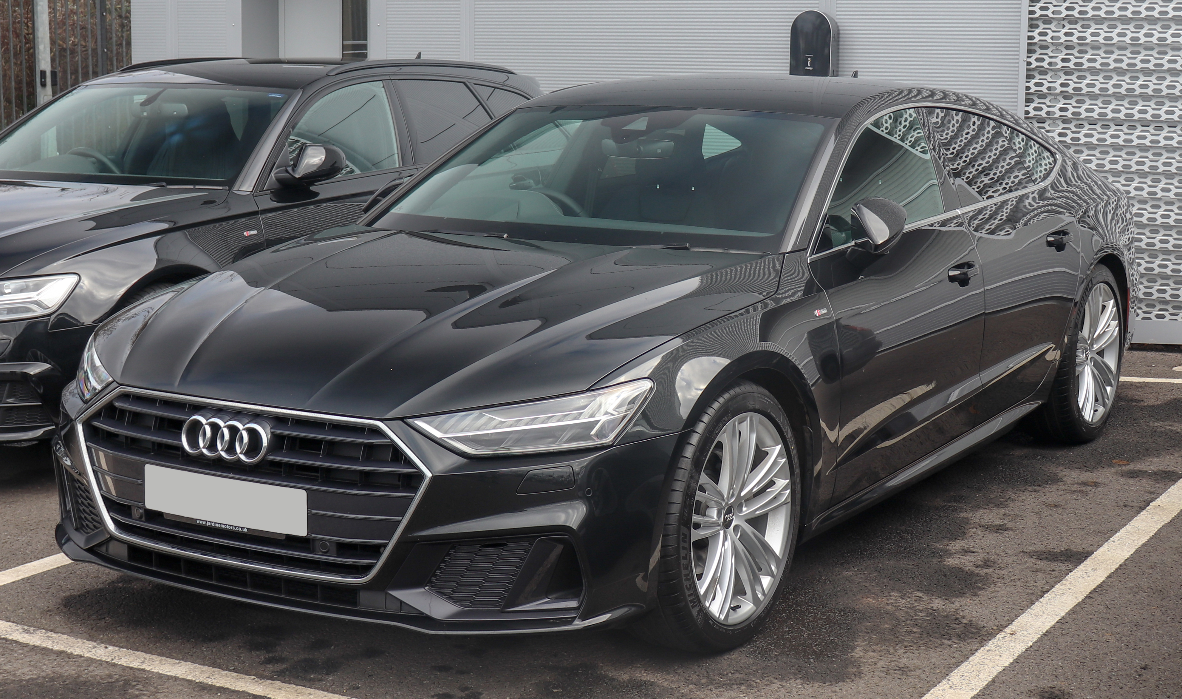 2018 Audi A7 S Line 40 TDi S-A 2.0 Taken in Stratford-upon-Avon